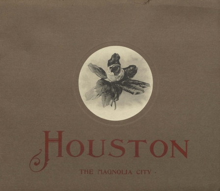 Thirteen page pamhlete of illustrations of prominent buildings in Houston.